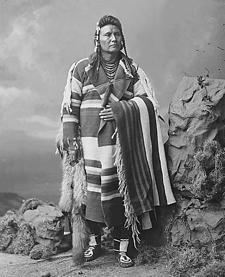 Chief Joseph, Nez Perce, when young , ca. 1871 - ca. 1907.